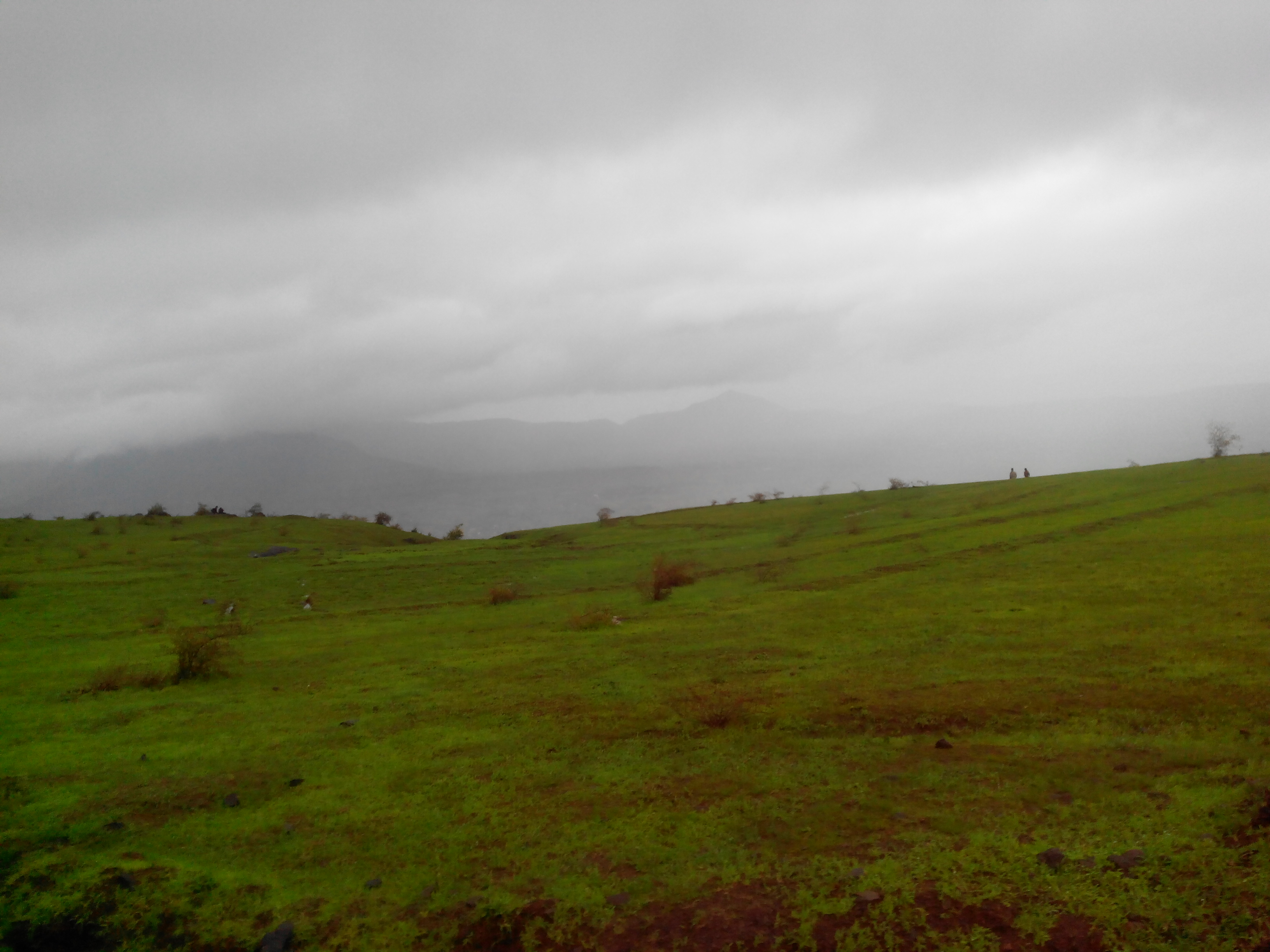 Near Kas , July 2014